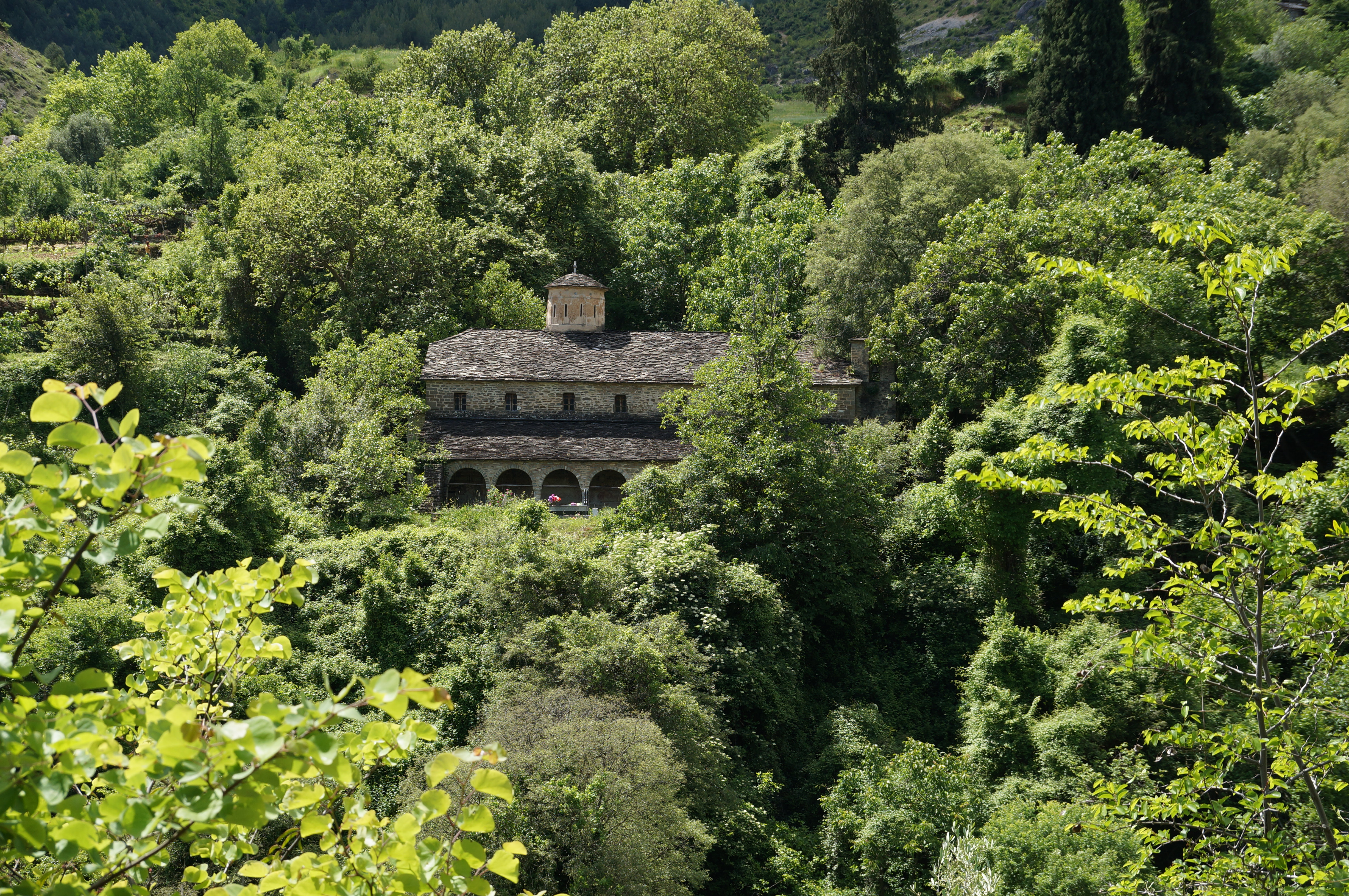 Leusa by Përmet, Southern Albania – St. Mary Church from 17th century